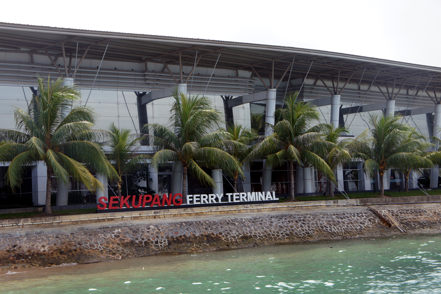 Sekupang Ferry Terminal, Batam, Indonesia